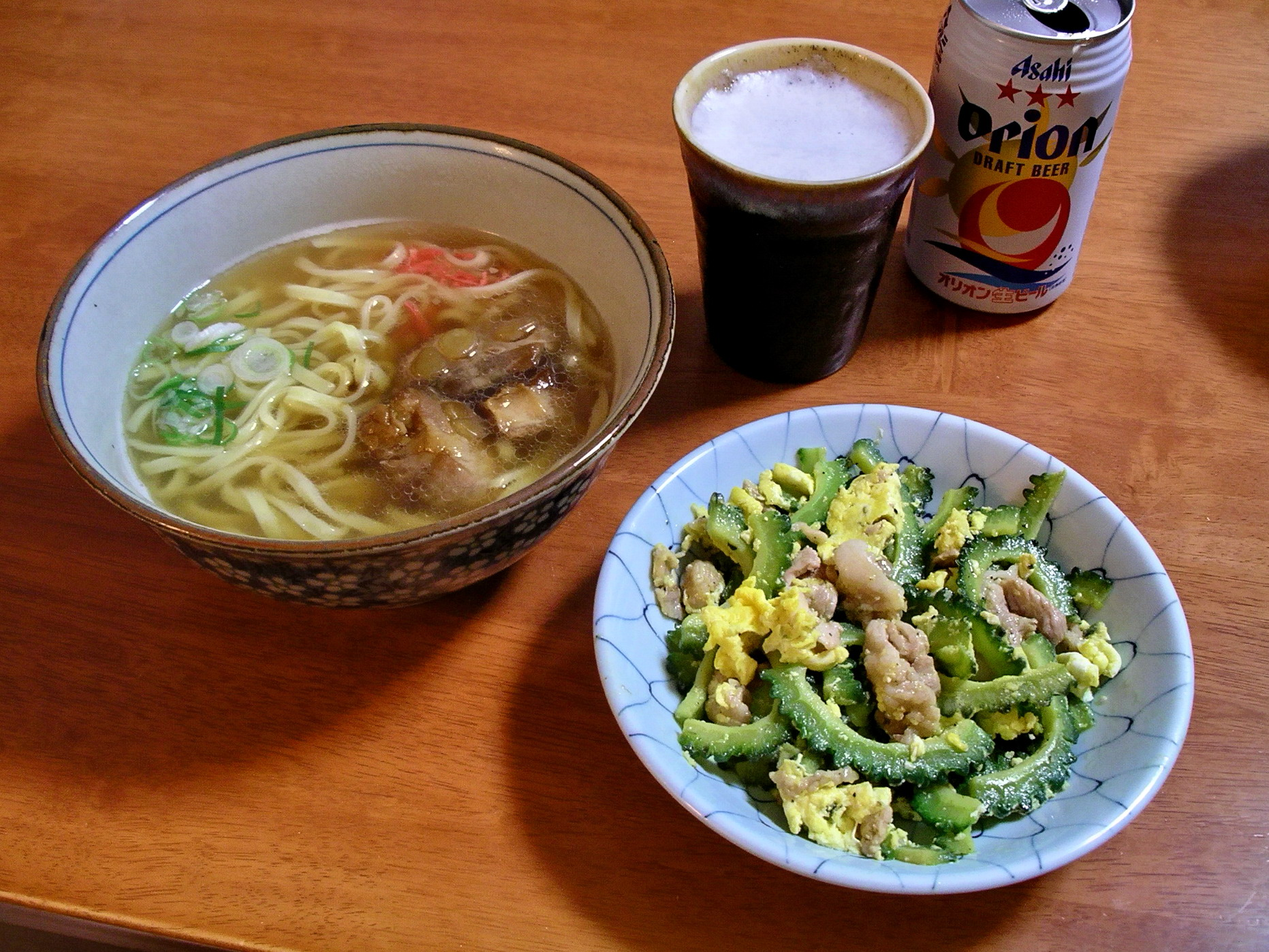 Gōyā Chanpurū (bitter gourd stir-fried with pork and eggs), Okinawa Soba, and the Orion Beer.